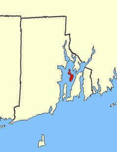 Prudence Island, the third-largest island in Narragansett Bay.